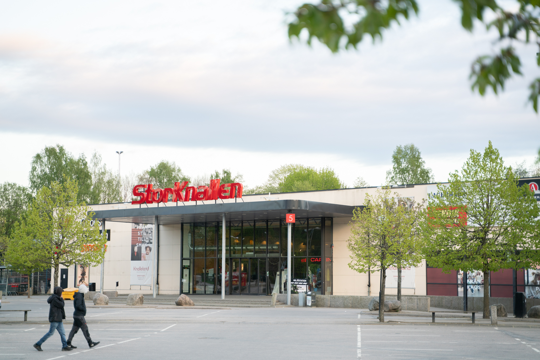 The shopping centre Knalleland located in Borås, Sweden.